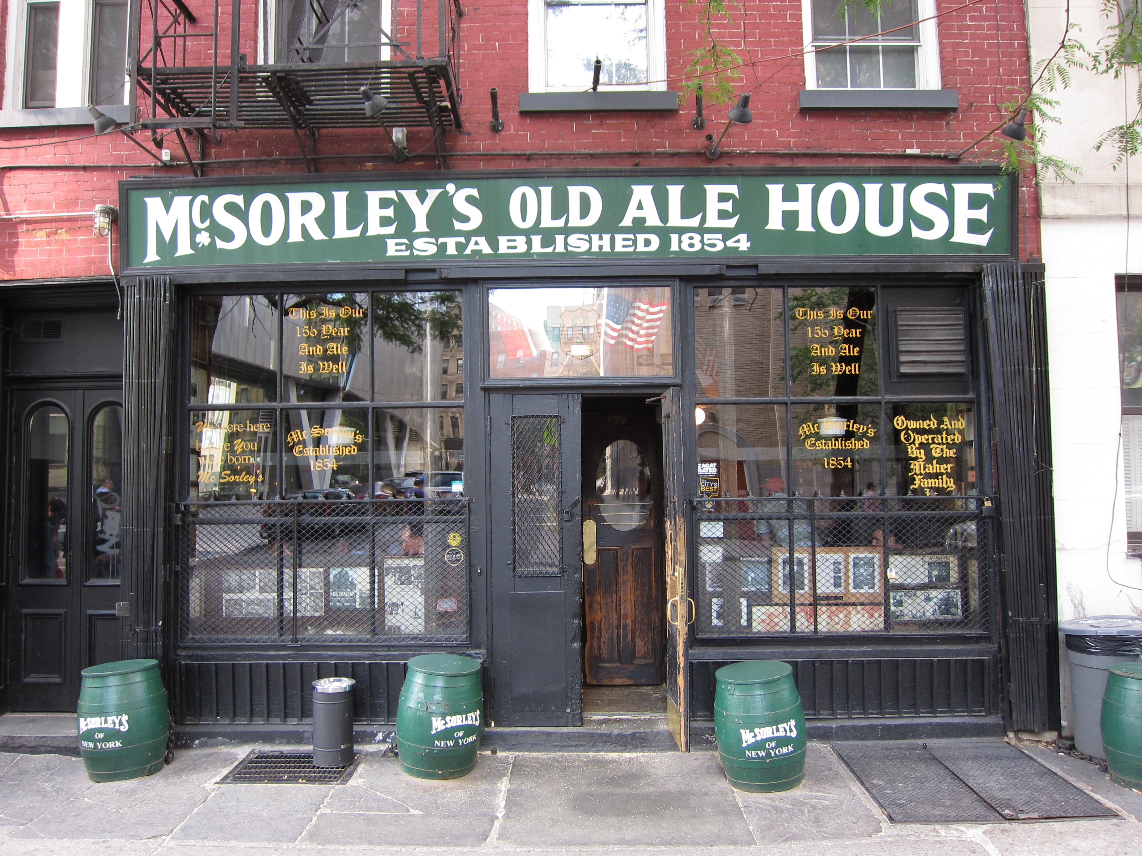 McSorley's Old Ale House, 15 East 7th Street, Manhattan, New York.